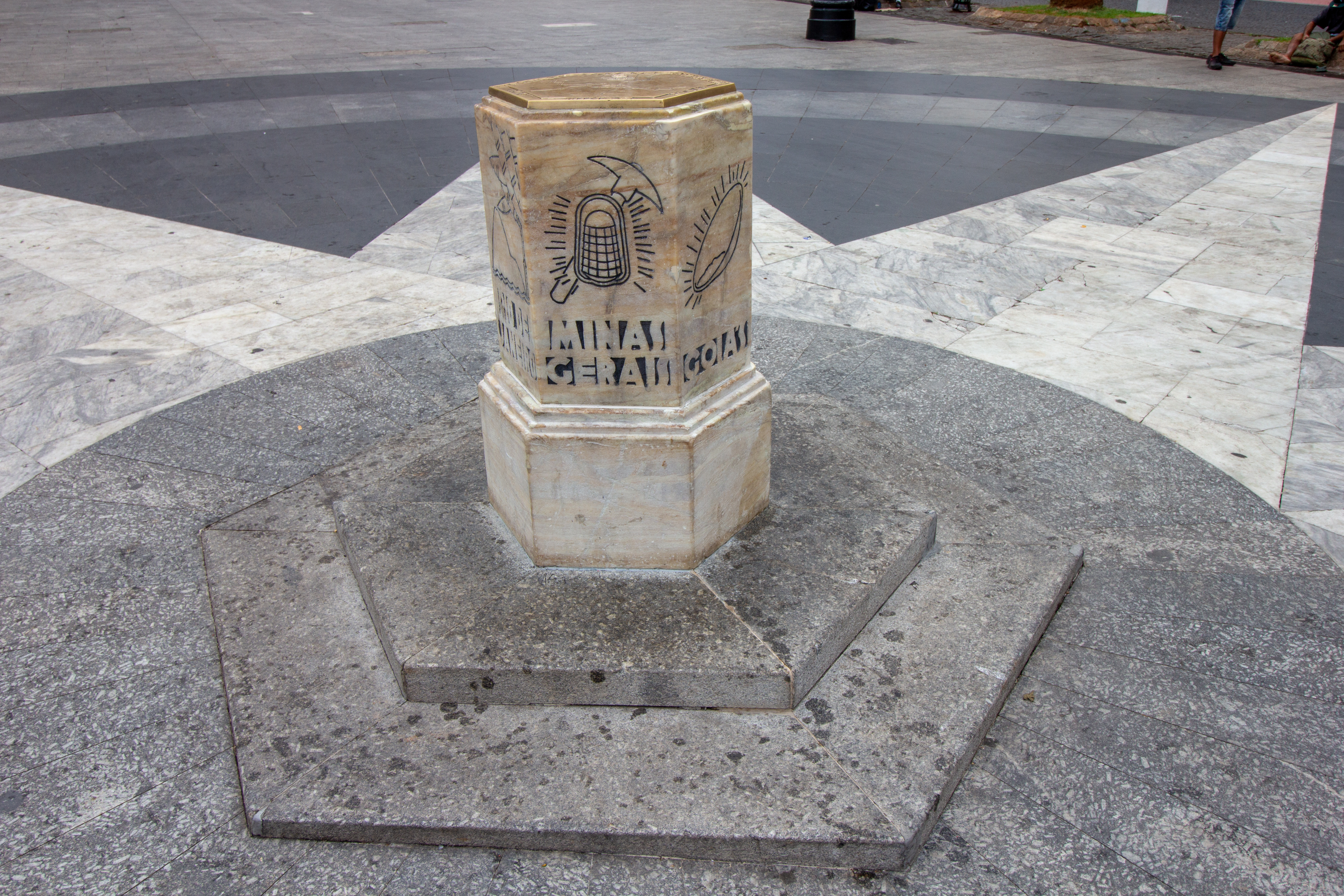 At São Paulo, Brazil